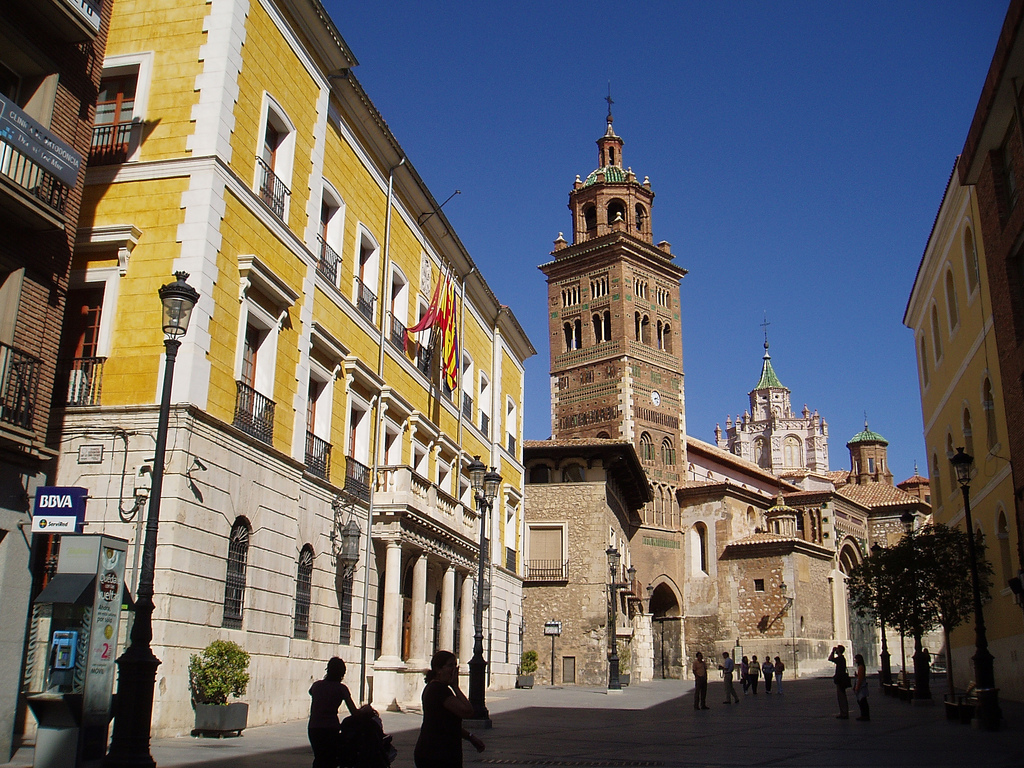 City Hall and Teruel Cathedral (Teruel, Aragón, Spain).